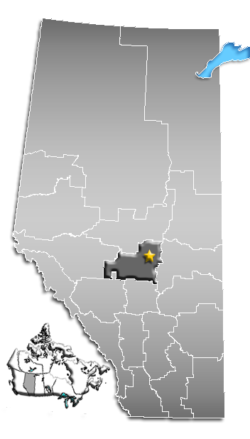 Location of Edmonton, Alberta